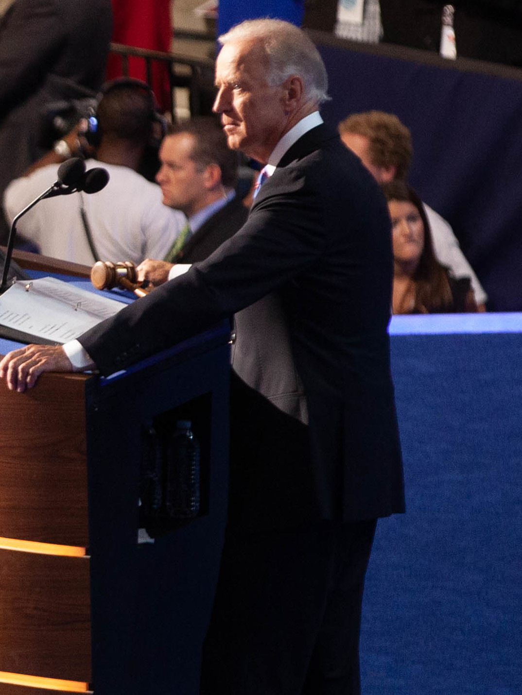 Vice President of the United States Joe Biden Democratic National Convention 2012